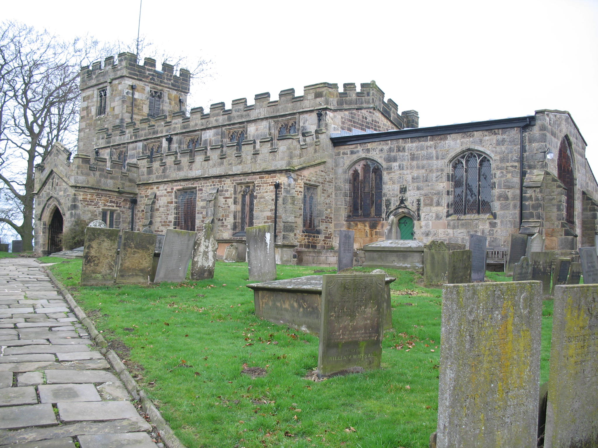 View of south side, St Matthew's Church, Pentrich